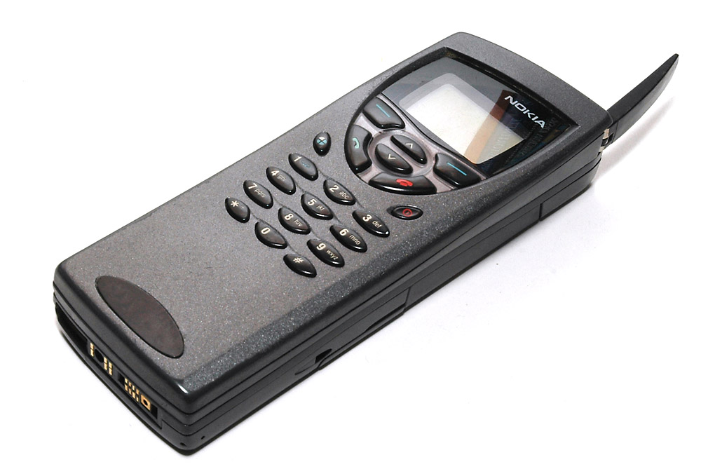 Nokia 9110